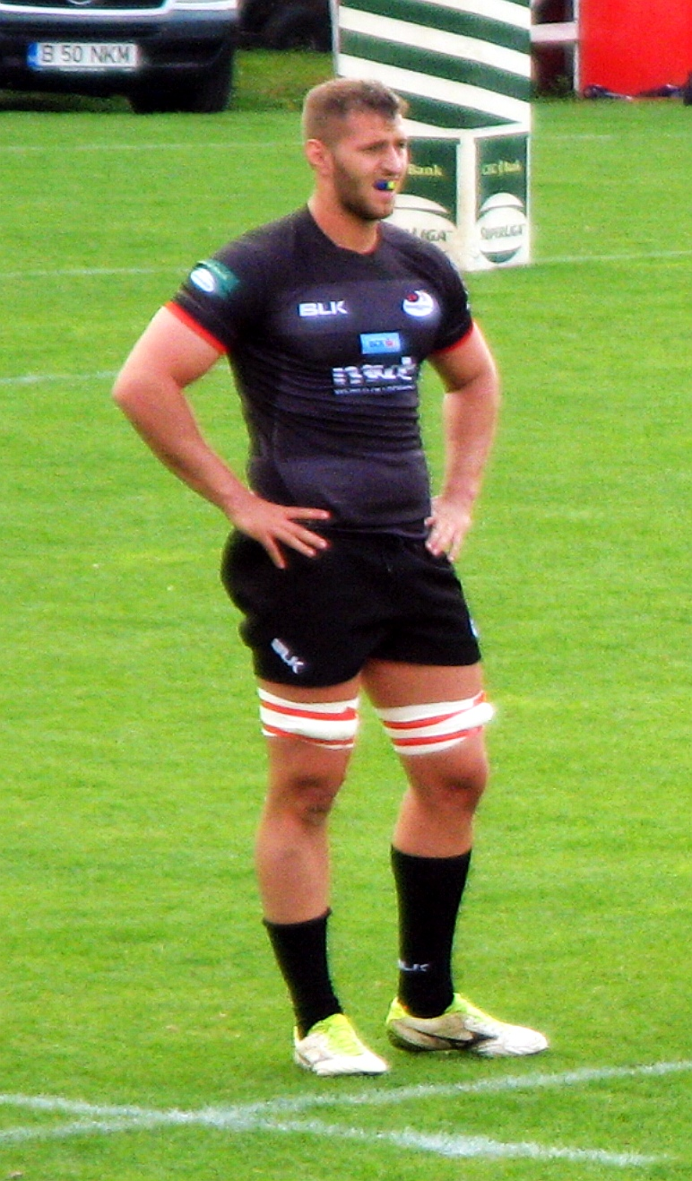 Romanian International Ionuț Mureșan, rugby union player of Timișoara Saracens rugby club seen in a match against CSA Steaua București in Romanian Rugby SuperLiga in April 2017